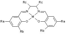 Salen ligand